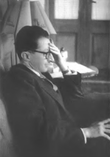 Sadegh Hedayat in 1324–1323 (1944–1945)